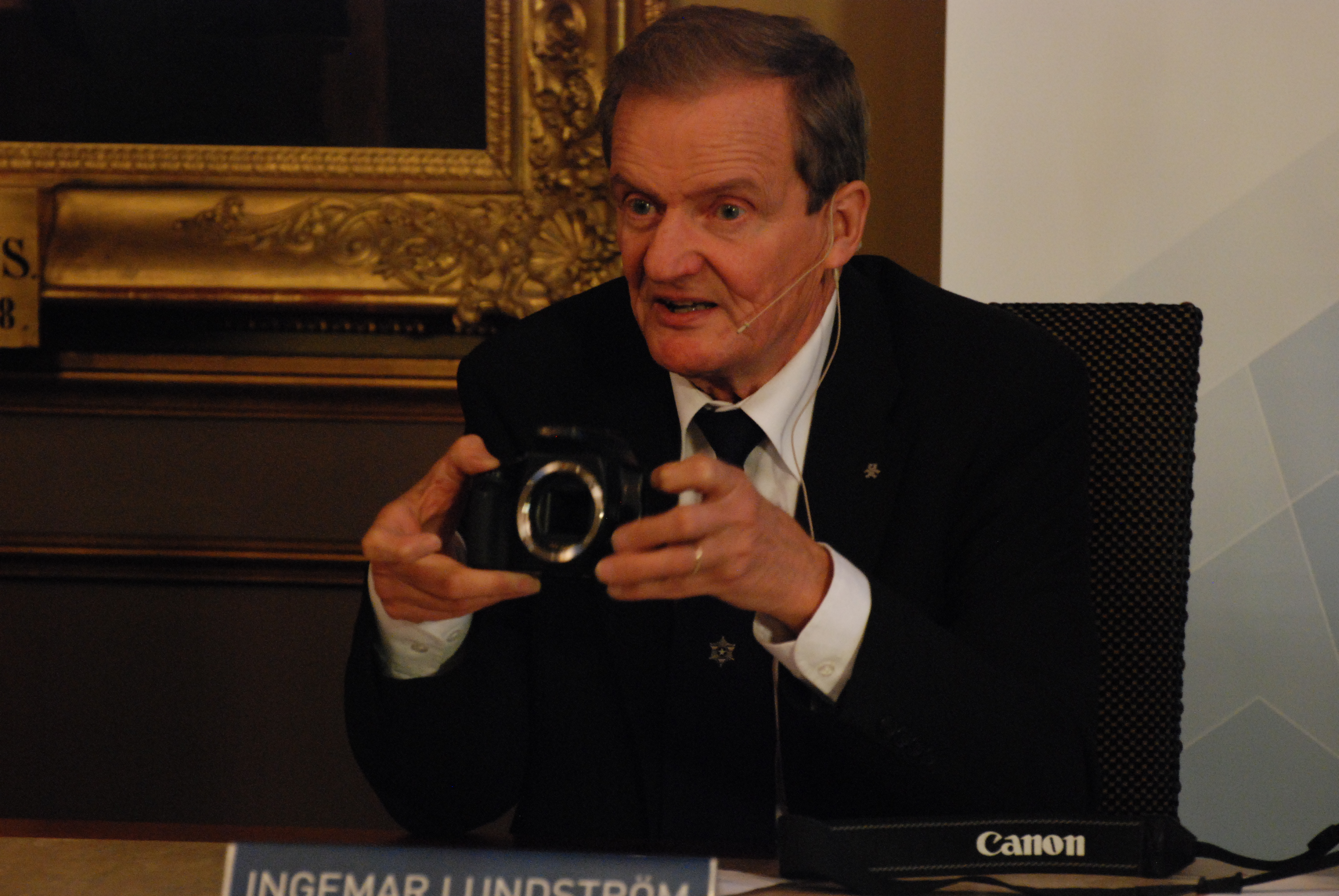 Announcement of the Laureate of the Nobel Prize in Physics 2009. Professor Ingemar Lundström, member of the Nobel Committee for Physics, explains.